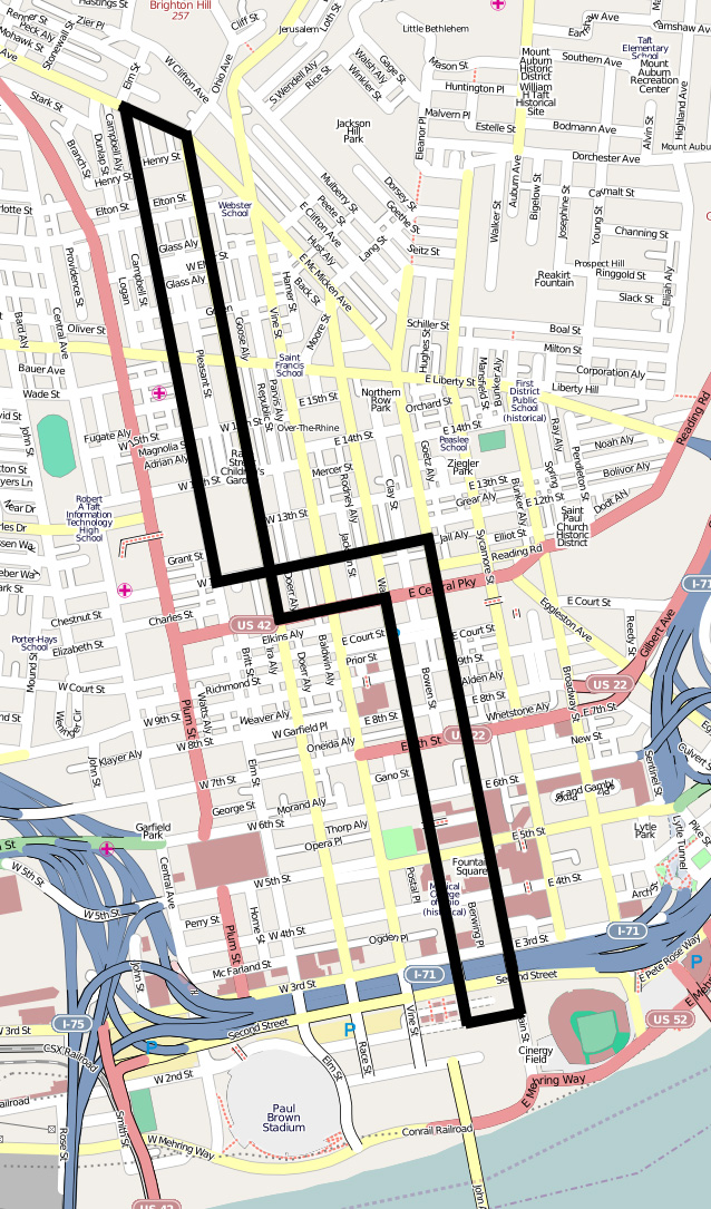 Phase I of the proposed Cincinnati Streetcar route.